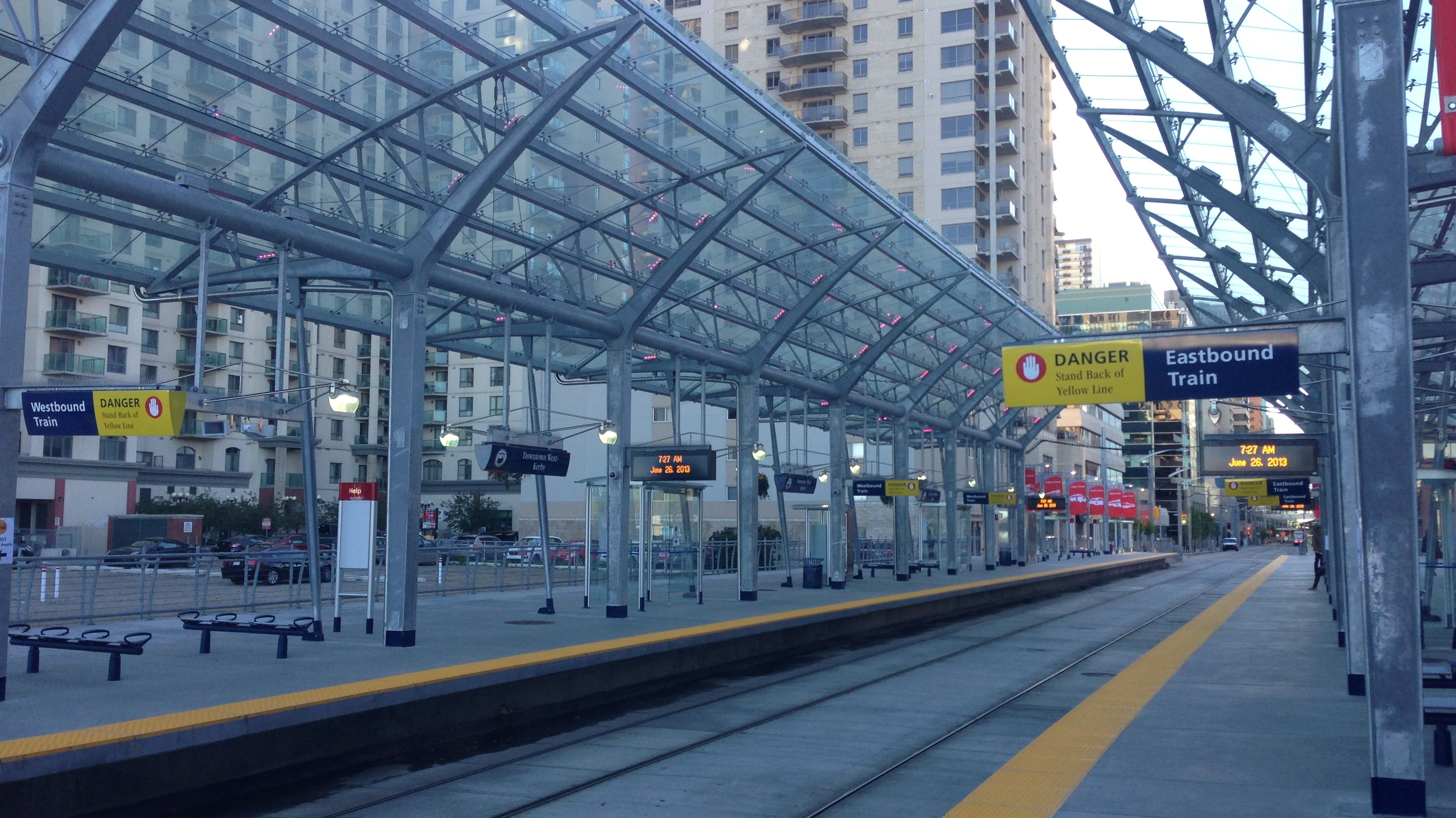 Platform view of the Downtown West-Kerby C-Train station.